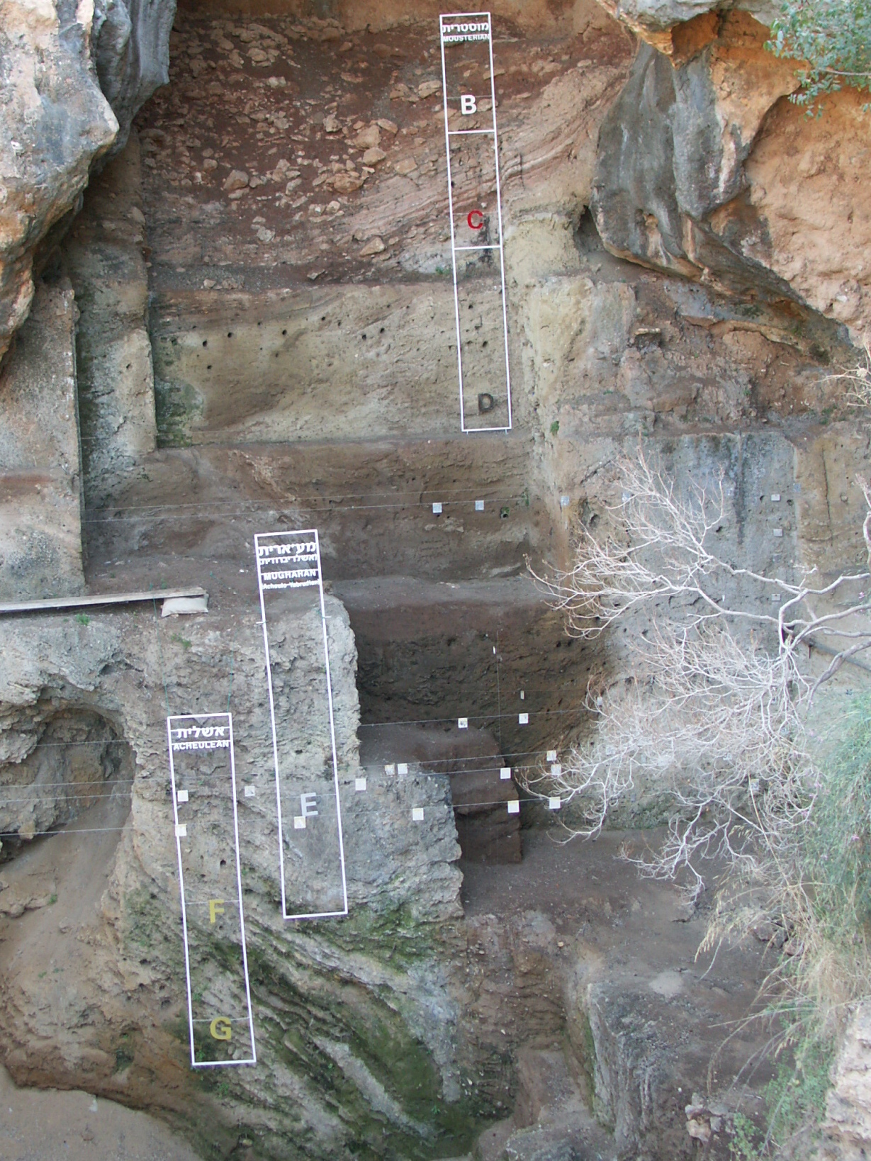 Tabun Cave, Mount Carmel, Israel